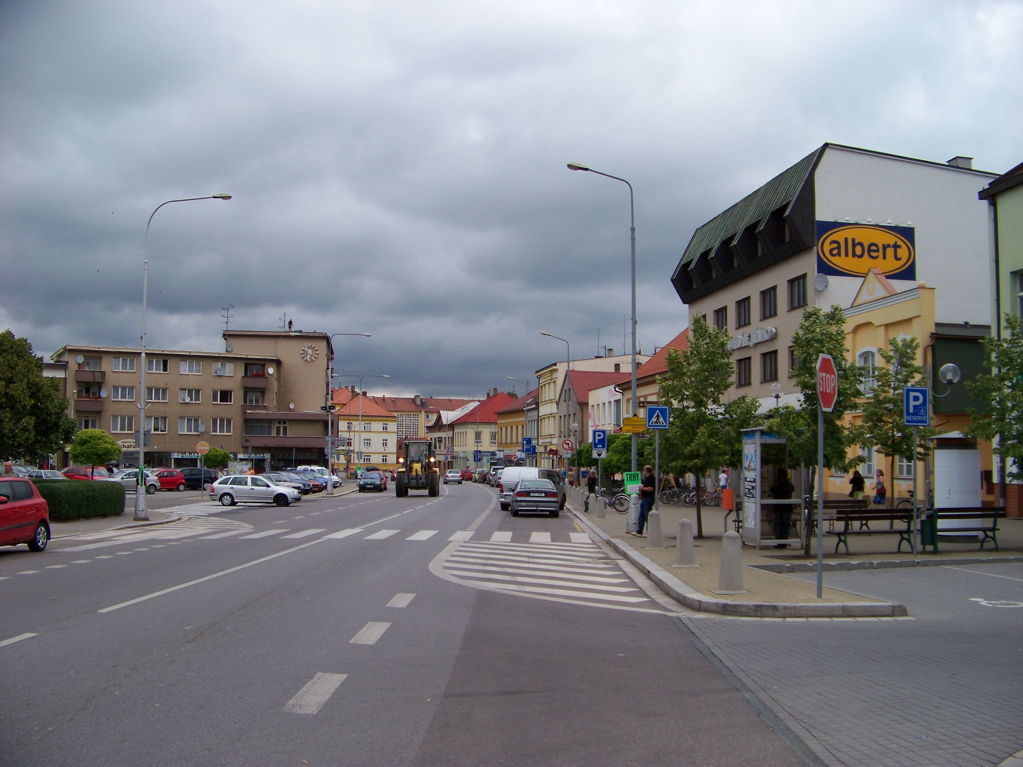 Holice, Pardubice District, Pardubice Region, the Czech Republic. Masaryk Square.